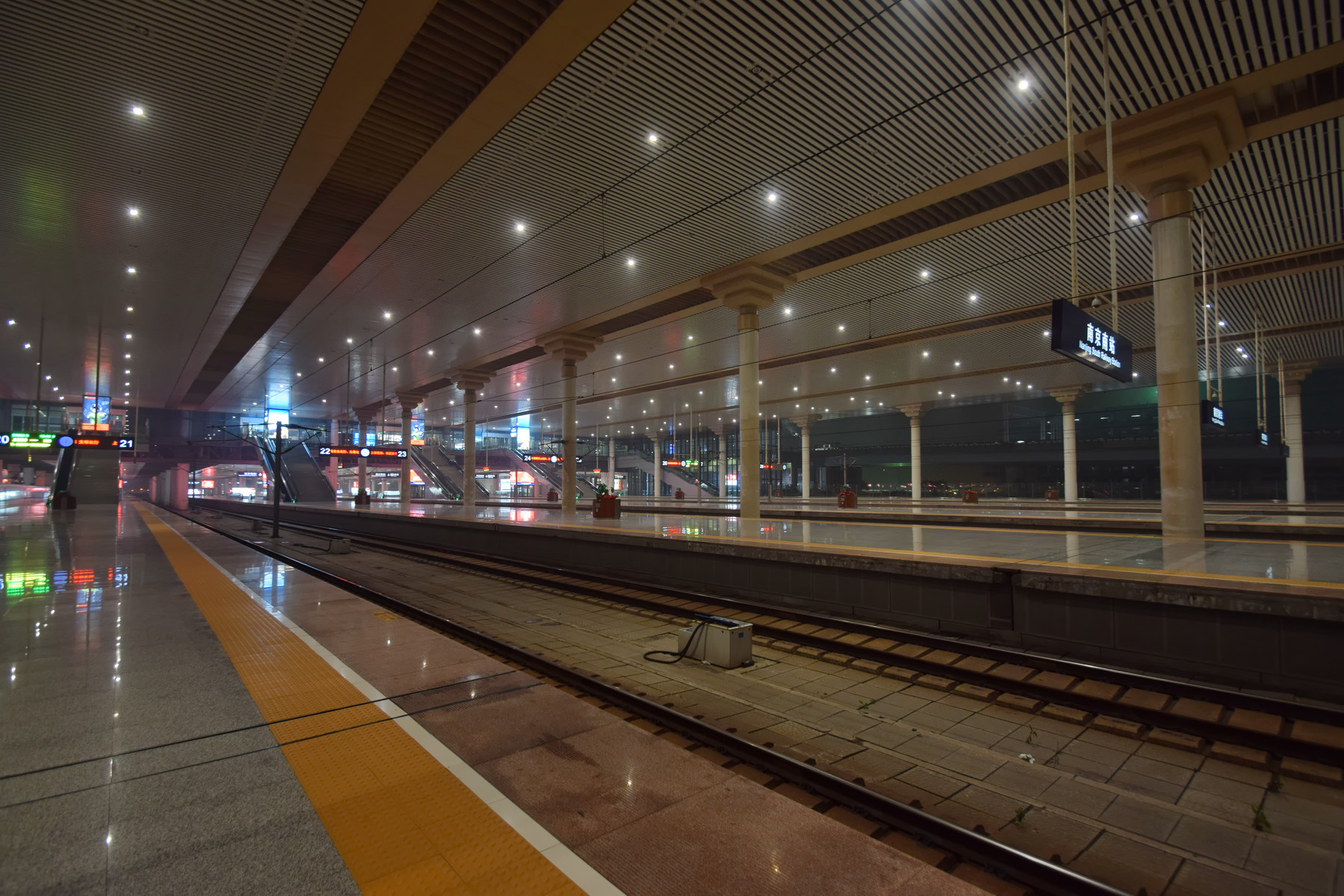 Platform 20-21,22-23 of Nanjing Nan (South) Railway Station